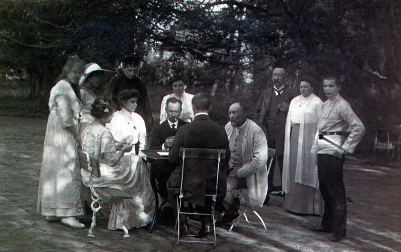 Stepan Gevorg and Gevorg Martin Lianozyan with their family members in a garden. Start of 20th century.